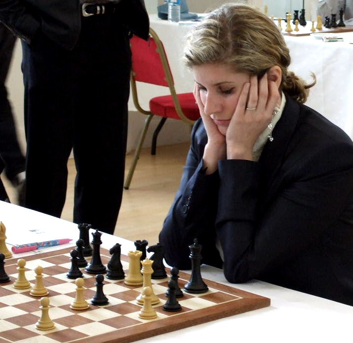 IM (& WGM) Jovanka Houska - Round 6 of 4th EU Individual Open Ch., Liverpool World Museum, William Brown Street